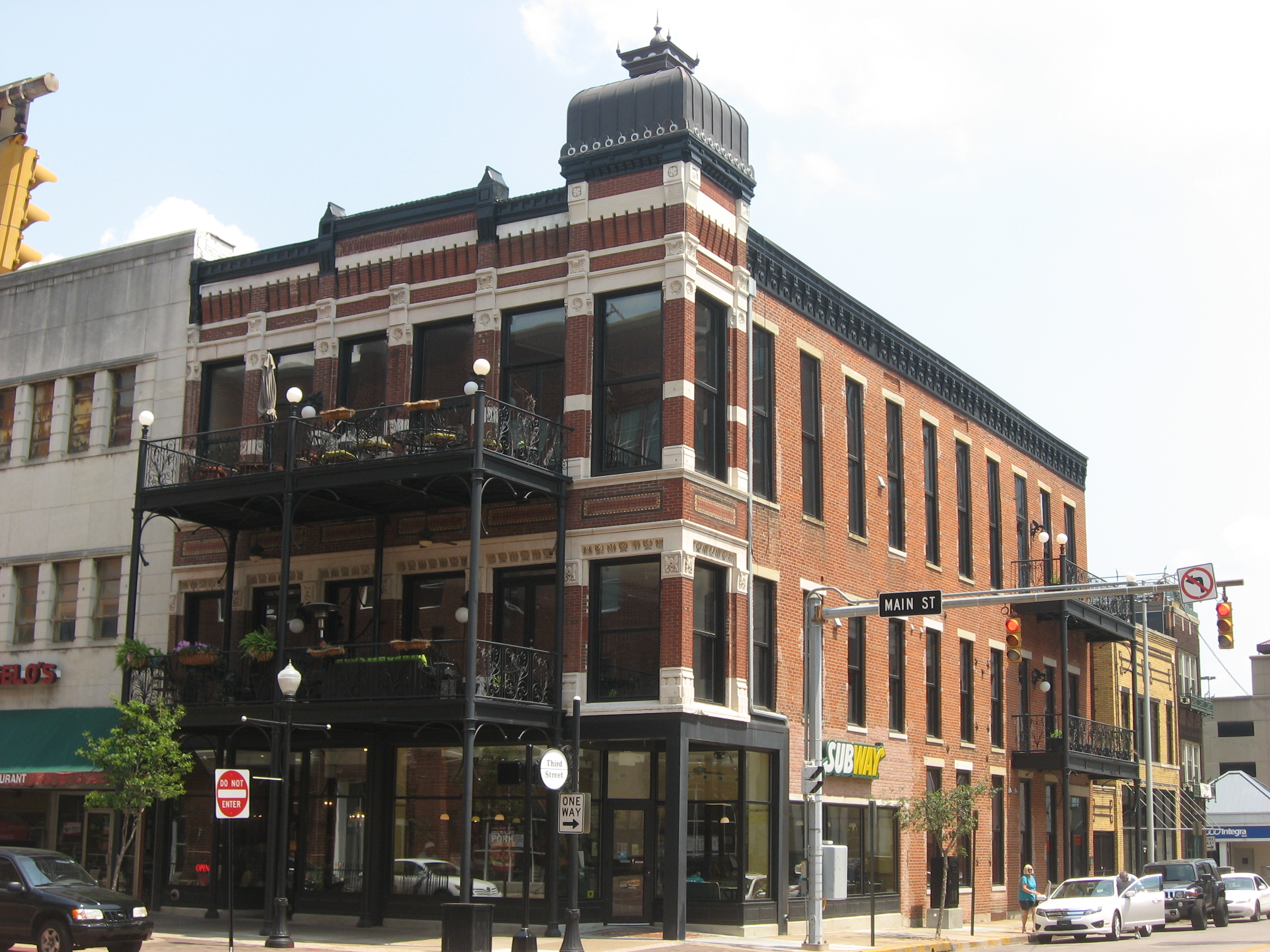 Front and southwestern side of the German Bank, located at 301-303 Main Street in Evansville, Indiana, United States. Built in 1857, it is listed on the National Register of Historic Places.